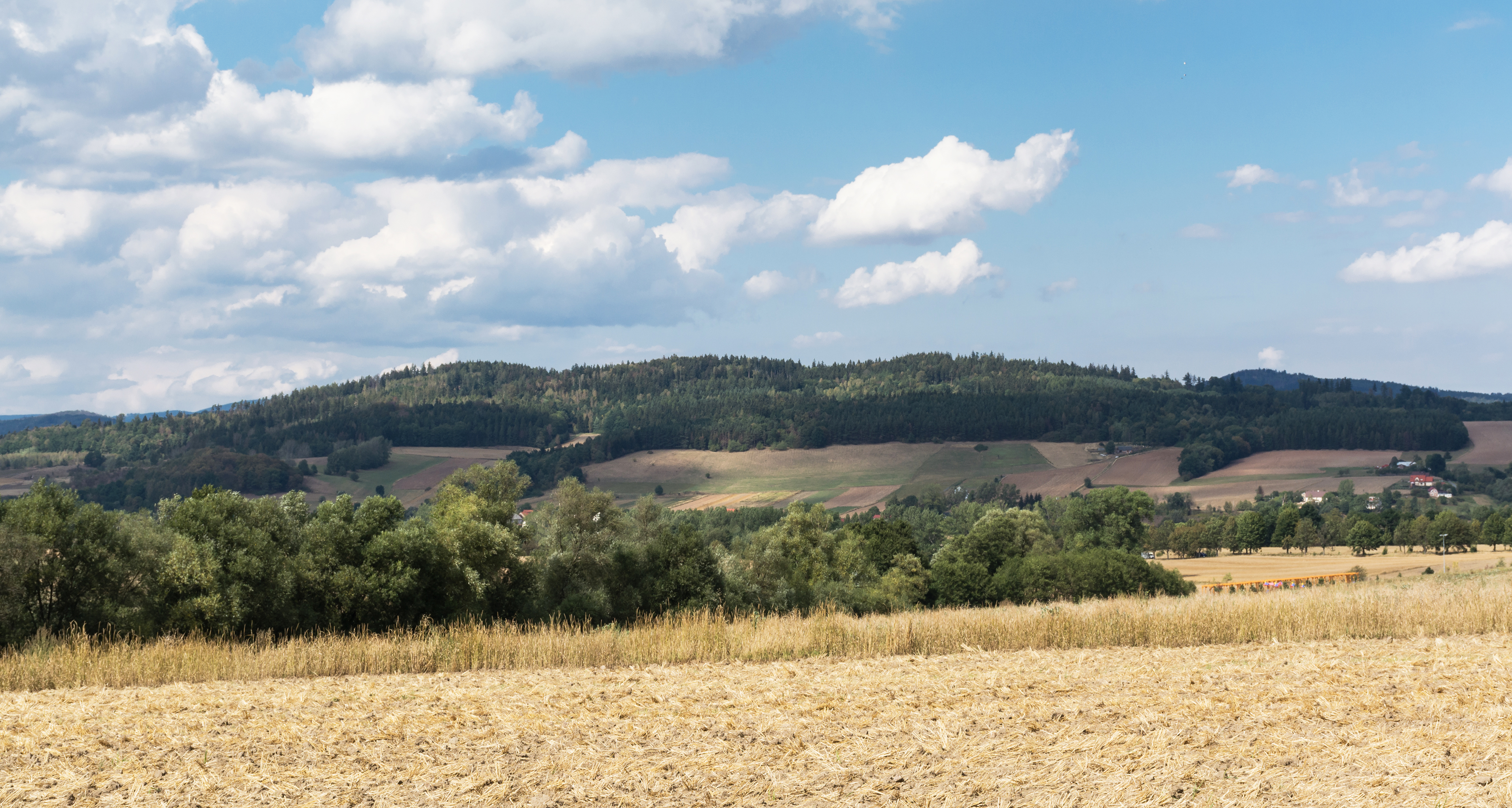 Goliniec, Bardzkie Mountains, Sudetes